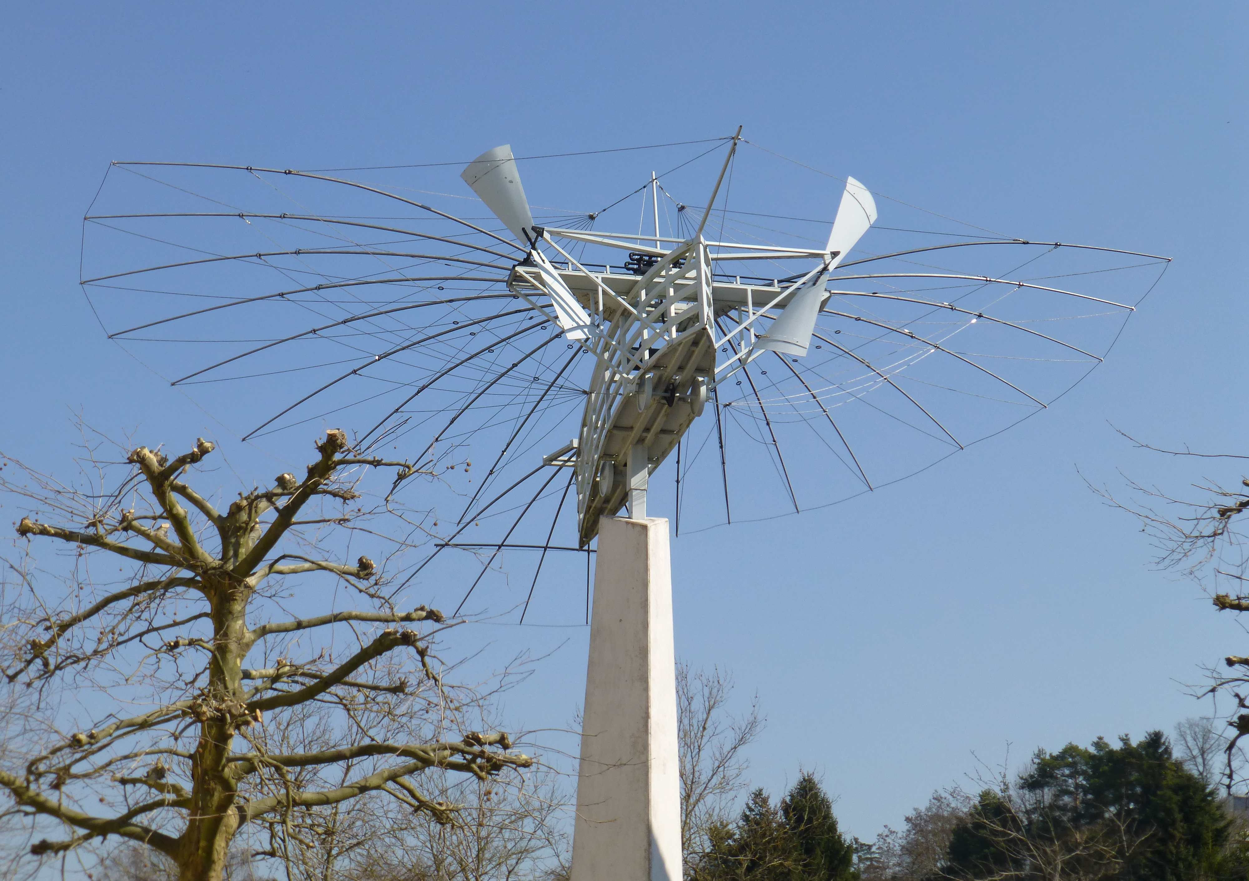 Gustave Whitehead Memorial in Leutershausen